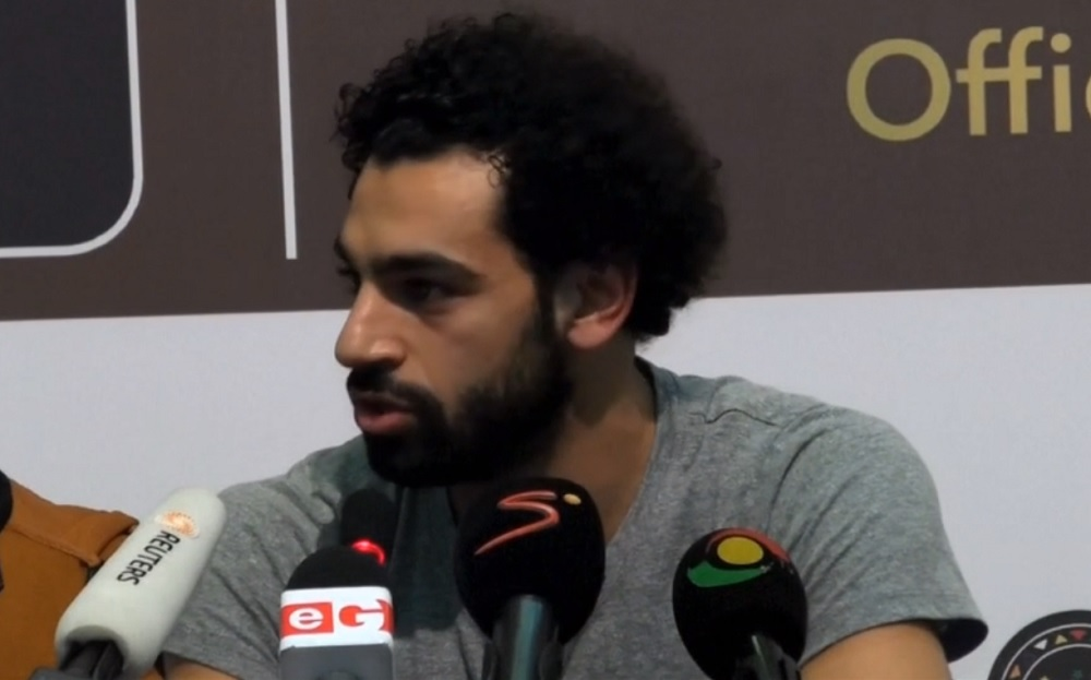 Mo Salah in press conference - CAF Awards 2017